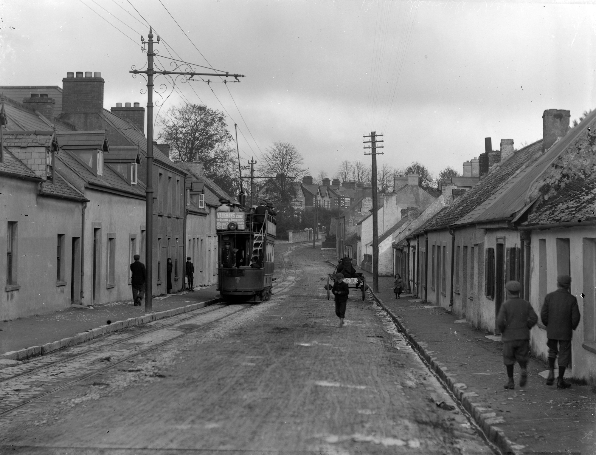 Ballintemple, County Cork circa 1910. This narrow street with an open top electric tram has lots of people about. Photographer: Fergus O'Connor Collection: Fergus O'Connor Collection. Circa: 1900 - 1920 NLI Ref: OCO 370